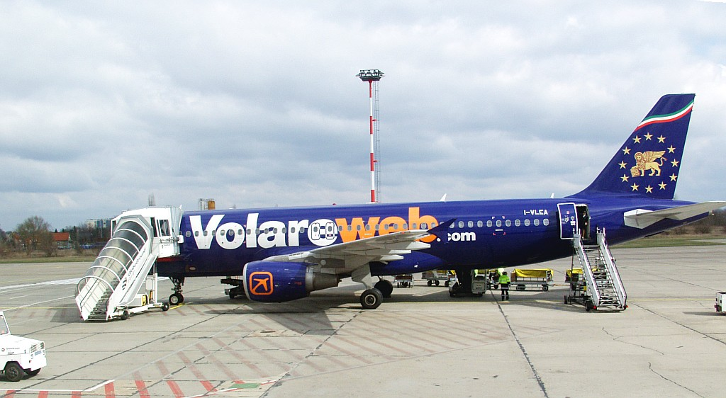 Airbus A320-214 of Volareweb at Berlin-Schönefeld